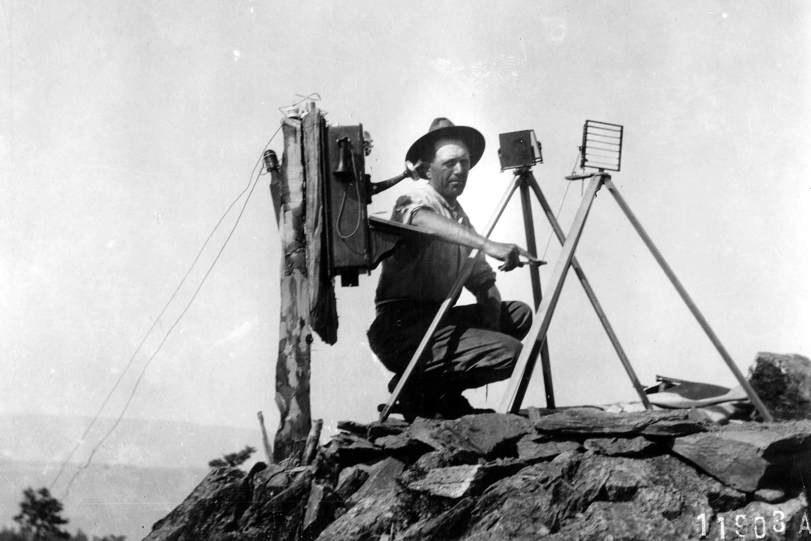 11903A LO with Heliograph CA 1912